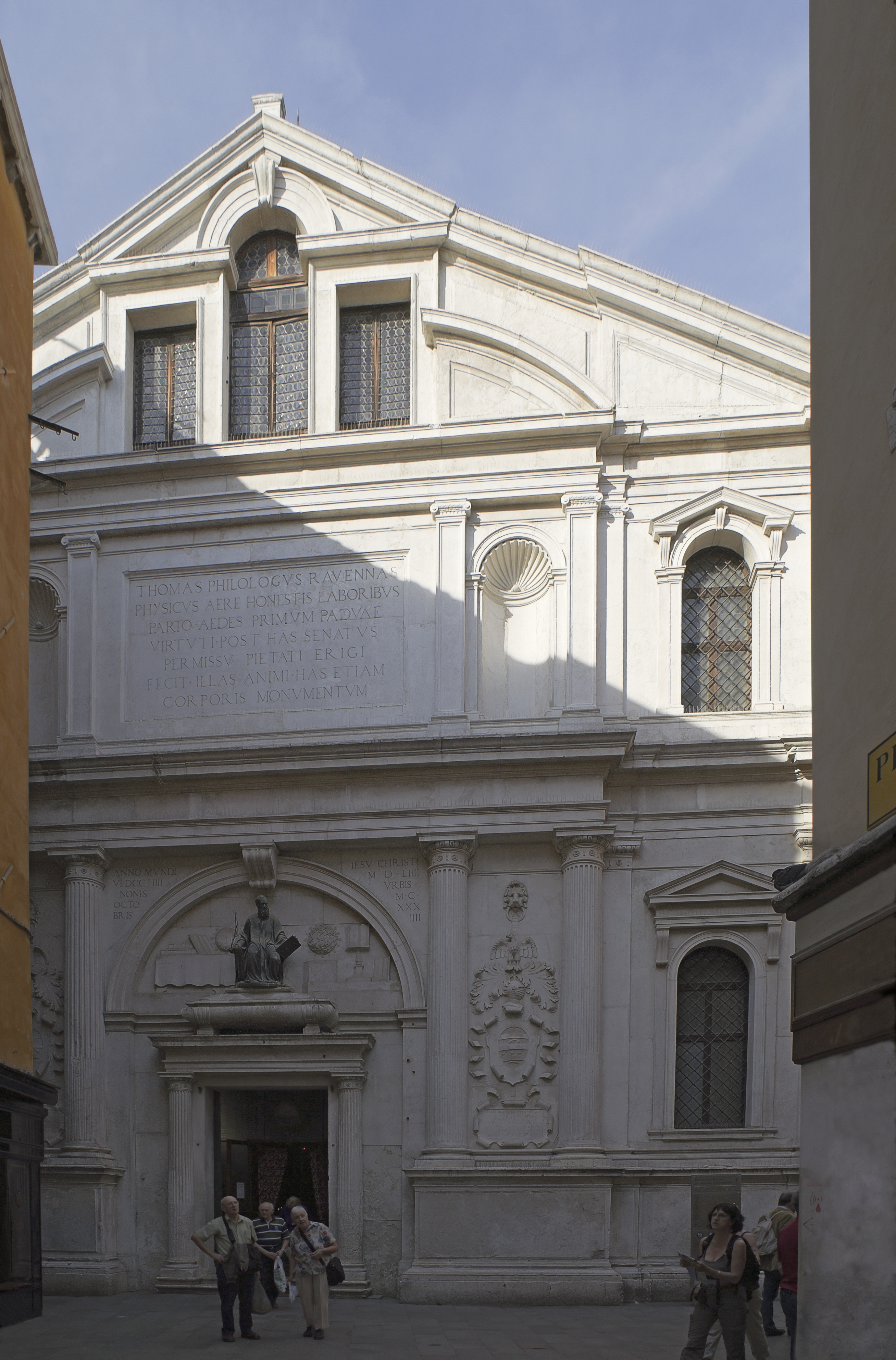 San Zulian, Venice, facade by Jacopo Sansovino, and completed after his death in 1570 by Alessandro Vittoria.